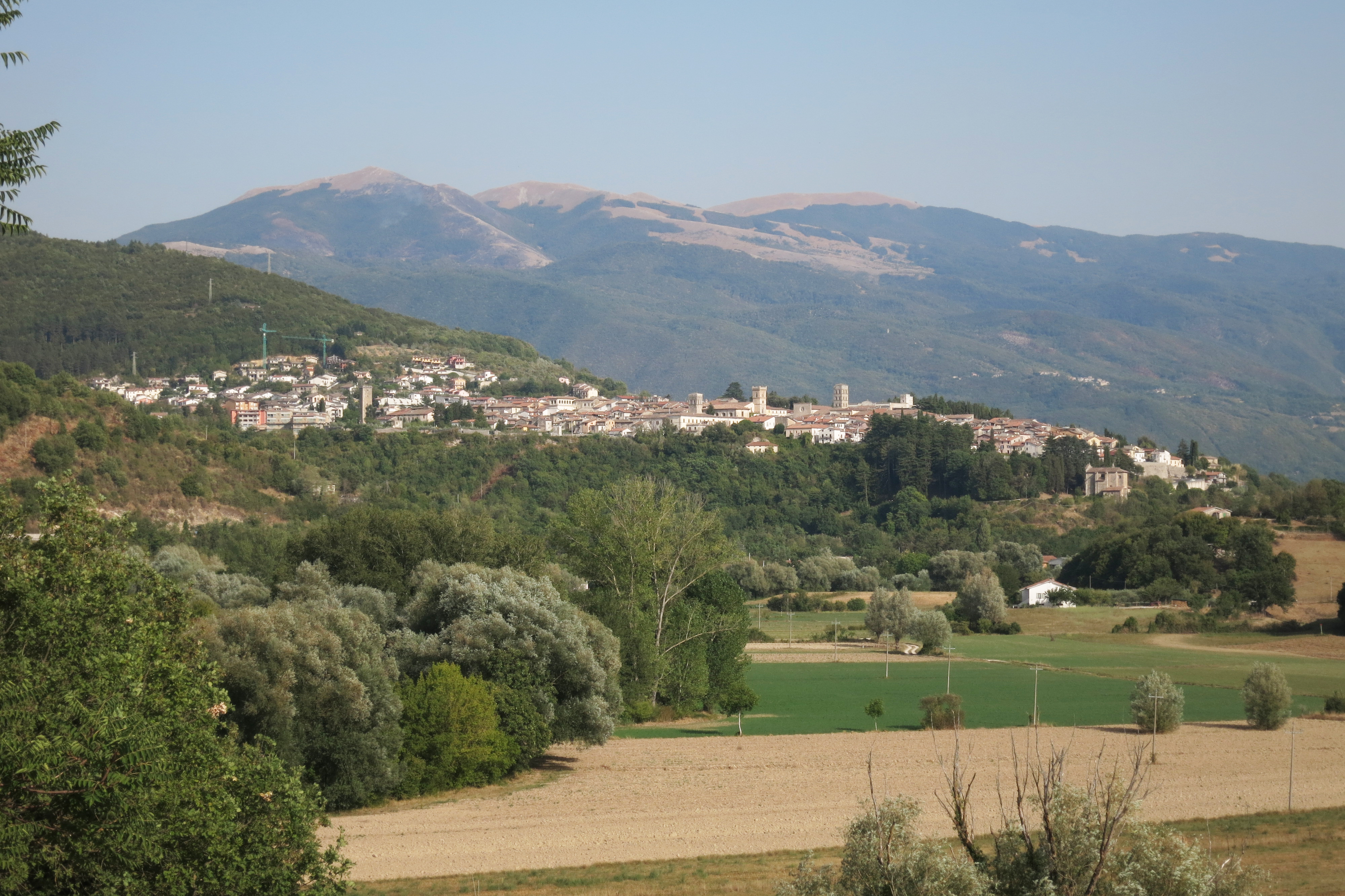 Cittaducale (province of Rieti, central Italy) as seen from state highway n. 4 "Via Salaria" near the Santa Rufina exit